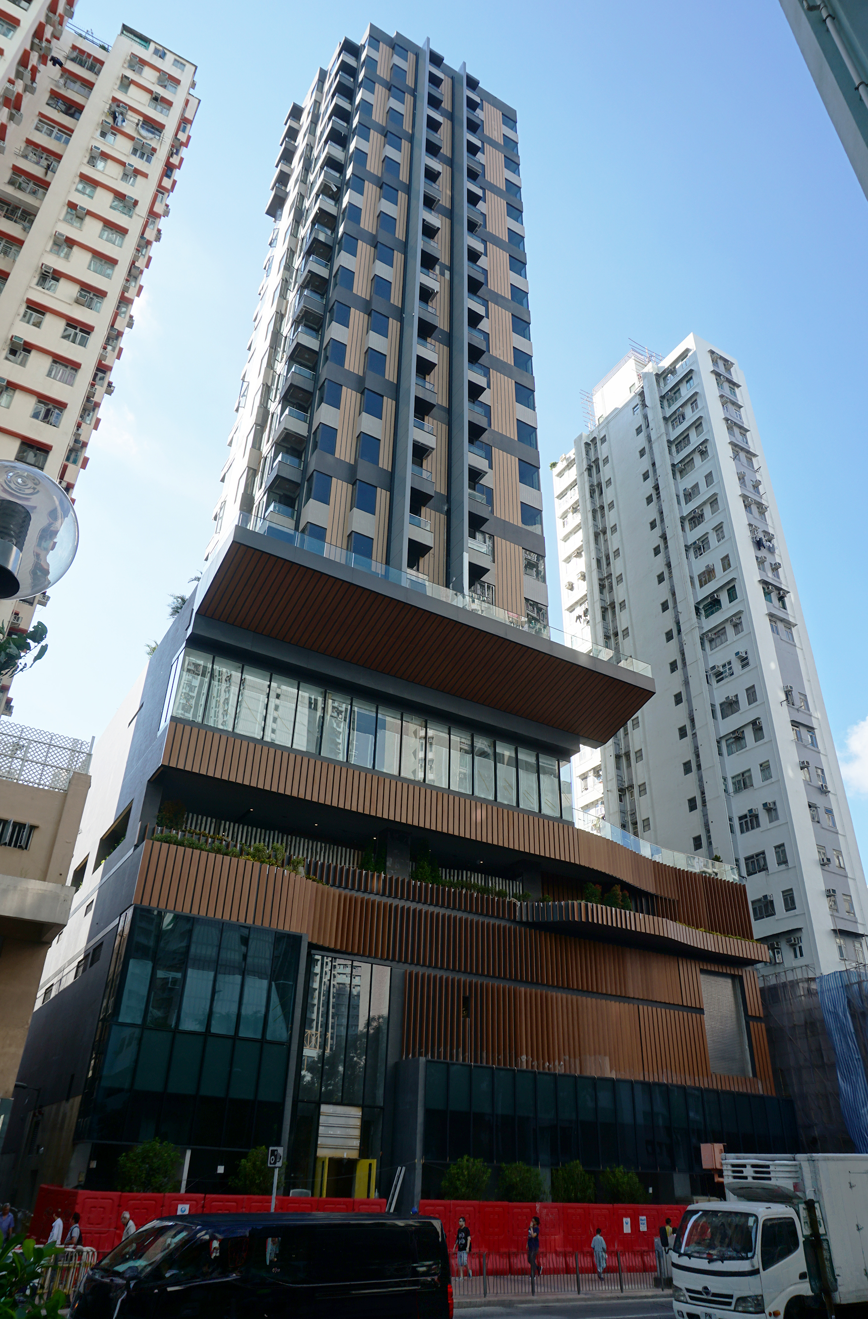 Edition 178 in Kwai Fong, Hong Kong.